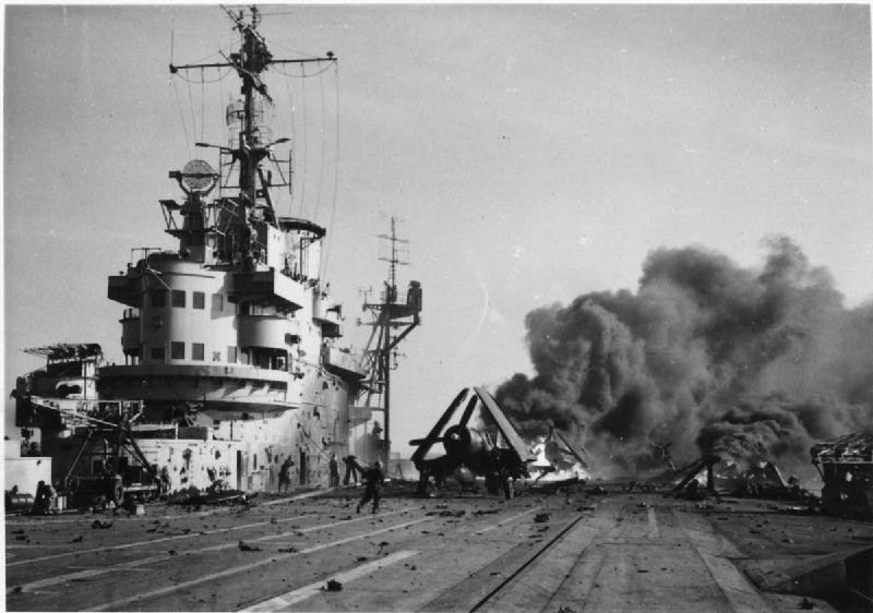 The Royal Navy during the Second World War Firefighters busy on board HMS FORMIDABLE after a Japanese suicide plane had crashed on the flight deck whilst she was operating off the Sakishima Islands in support of the Okinawa landings. A Chance-Vought Corsair with its wings folded can be seen next to the badly scorched island whilst black smoke pours from the burning wreckage at the far end of the flight deck.